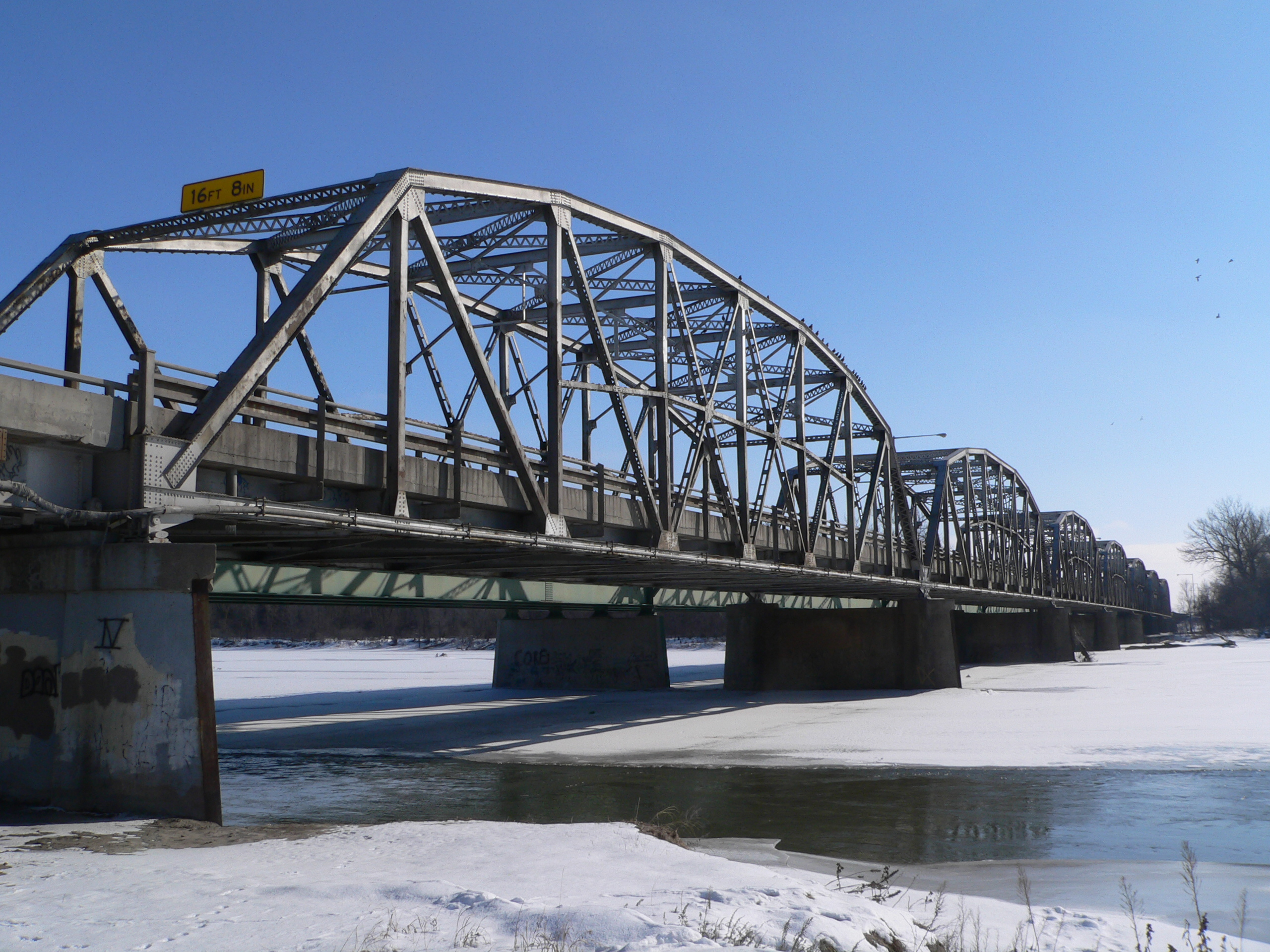 Columbus Loup River Bridge, carrying U.S. Highway 81 across the Loup River at the southern edge of Columbus, Nebraska; seen from the northwest (upstream). The Parker through truss bridge consists of seven trussed spans and two approach spans. It was built in 1932, and is listed in the National Register of Historic Places. The bridge currently carries two lanes of southbound traffic across the river; a bridge of more recent date carries two northbound lanes. The right pier in the middle of the photo belongs to the 1932 bridge; the left pier, to the later bridge.